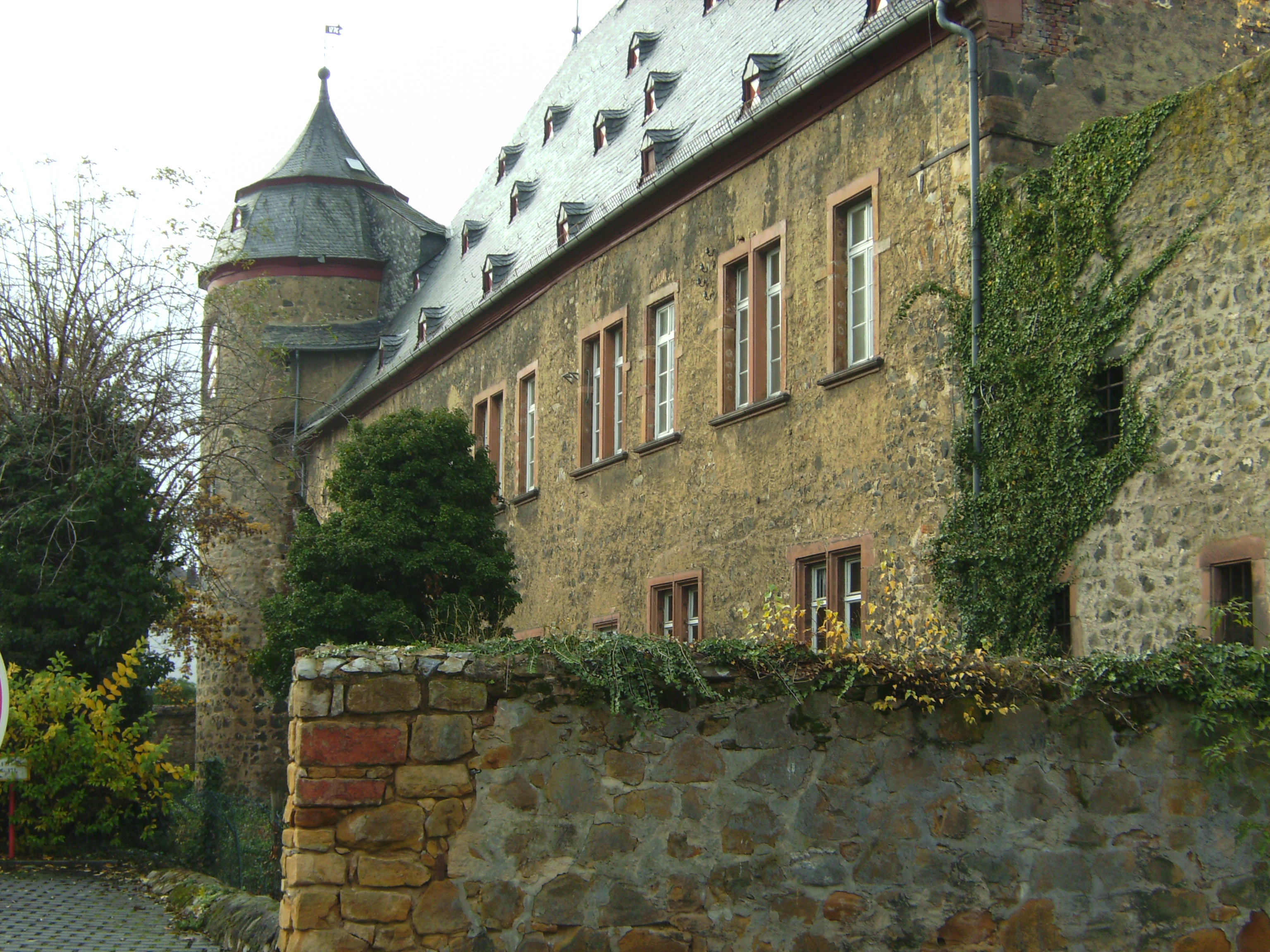 Count of Solms castle